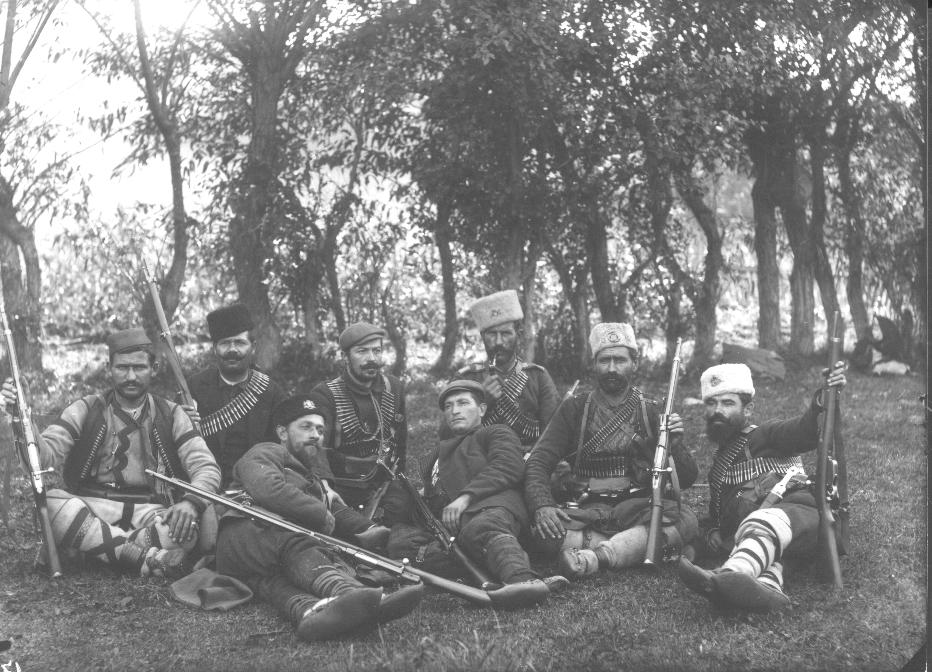 IMARO members Sotir Atanasov (in middle), behind him is Iliya Berberov, Anton Shipkov - the right one